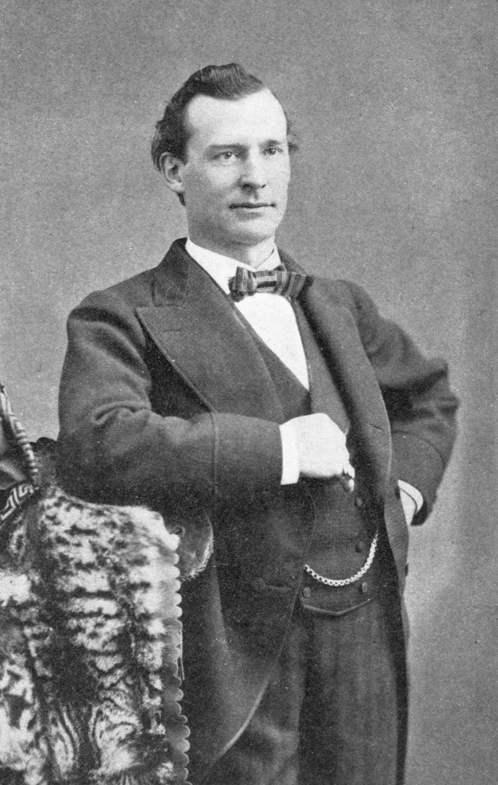 Photo of John Edward McCullough, from the collection of Charles Warren Stoddard, from the story "In Old Bohemia" by Stoddard printed in the Pacific Monthly in 1907.